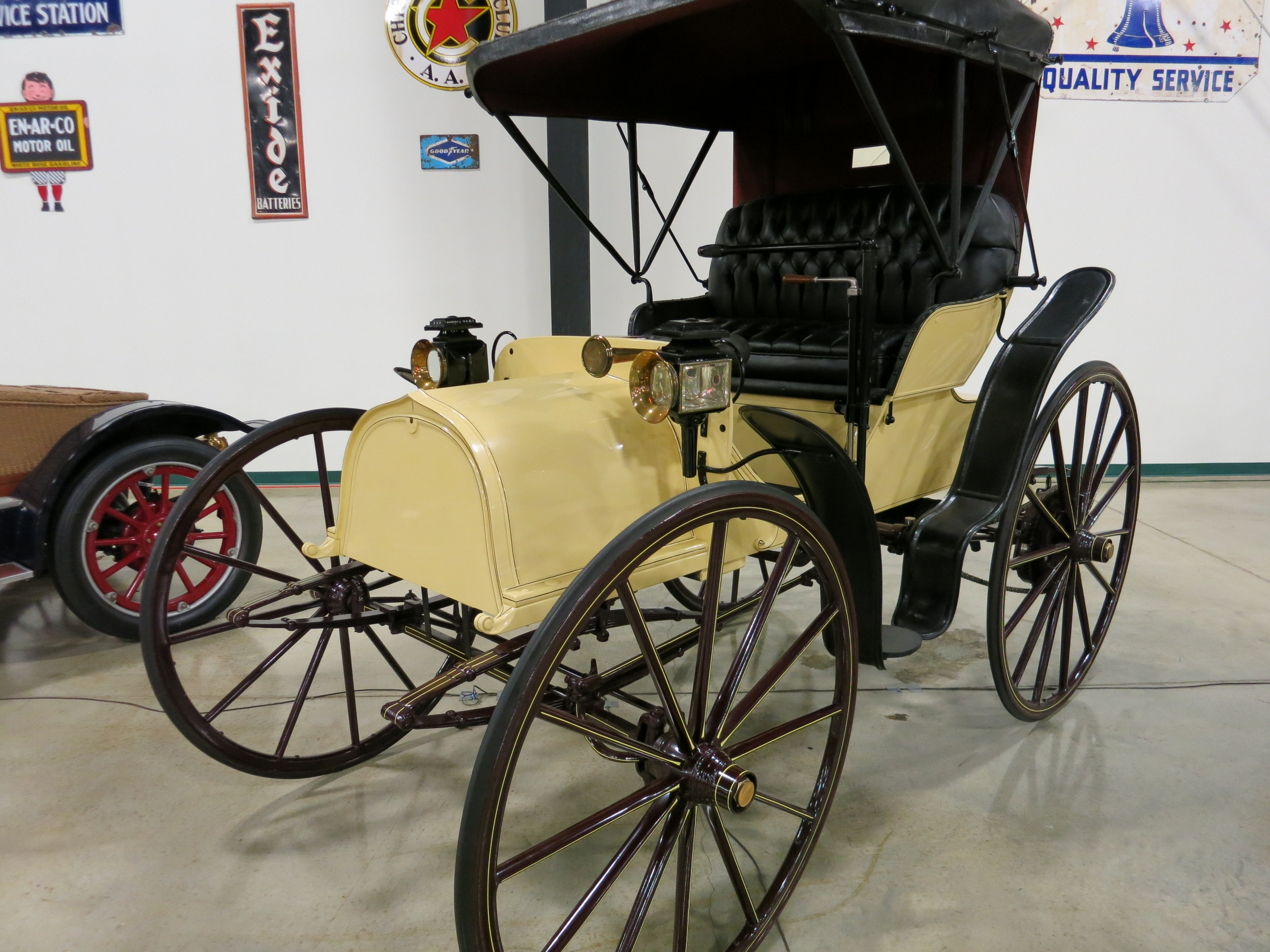 1908 Columbus Highwheeler Tupelo Automobile Museum Tupelo, Mississippi